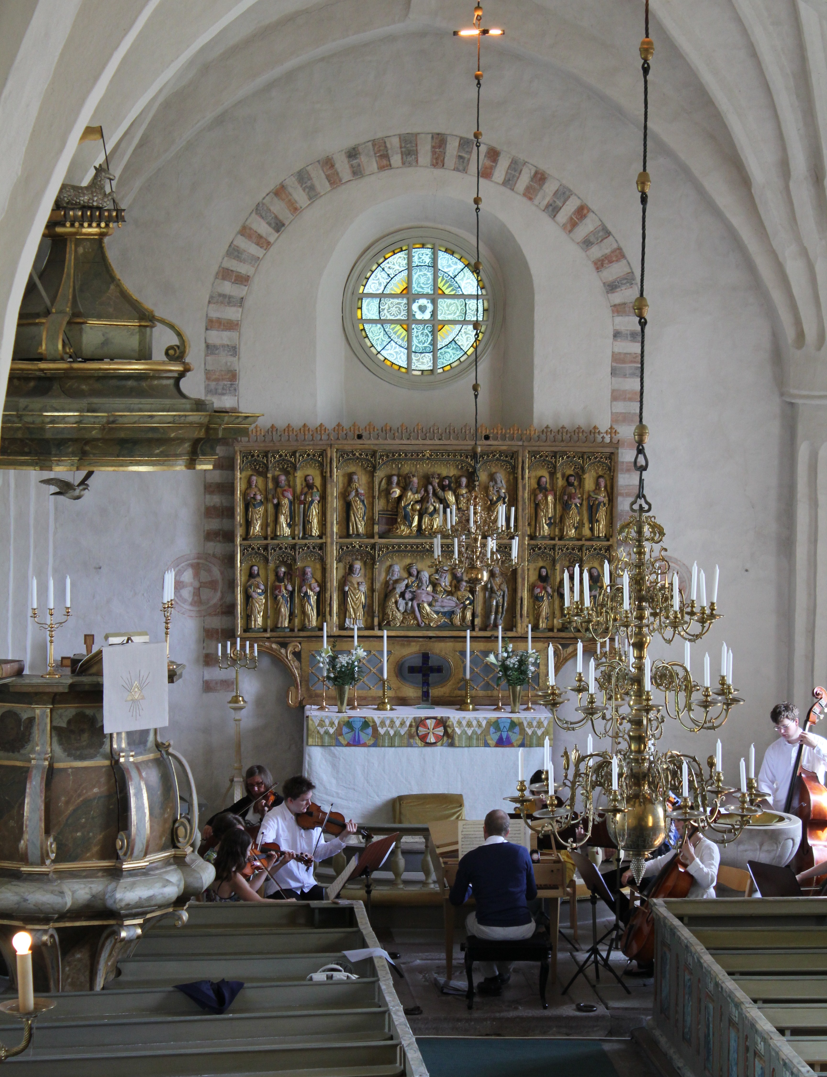 Practicing musicians in Boglösa kyrka, Enköping, Sweden.